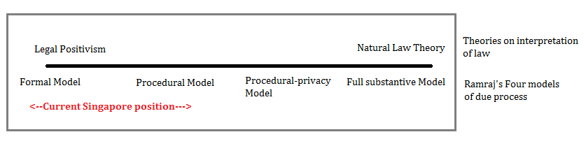 A diagram illustrating what models of due process the interpretation of the word law in Article 9(1) of the Constitution of Singapore by the Singapore courts indicates, according to Victor V. Ramraj (2004). "Four Models of Due Process". International Journal of Constitutional Law 2: 240.